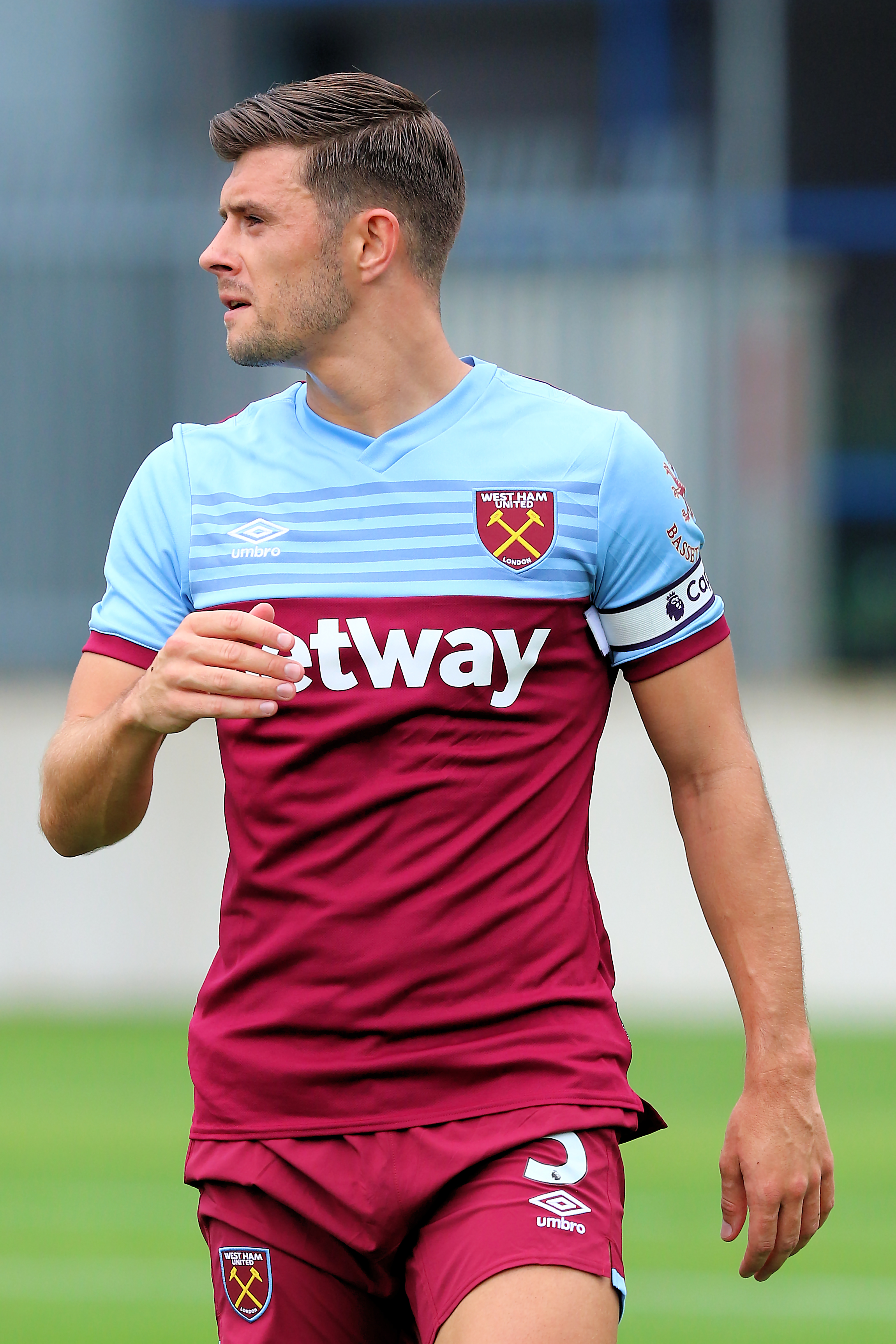 Friendly match Hertha BSC (blue-white shirts) vs. West Ham United (red-blue shirts) at 31-07-2019 3-5 (3-2) in the Sonnenseestadium in Ritzing. – The photo shows Aaron Cresswell (West Ham United).